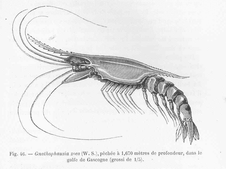 Subject: Mysidacea, Gnathophausia Tag: Shellfish